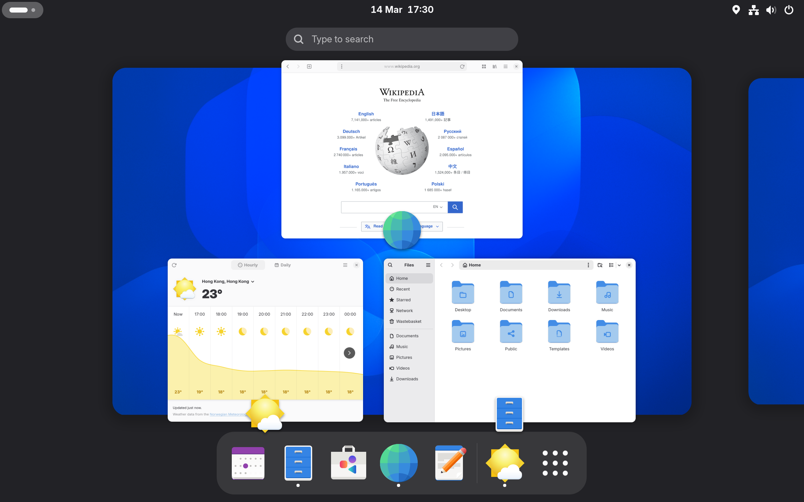 A screenshot of GNOME Shell showing overview mode; various versions.